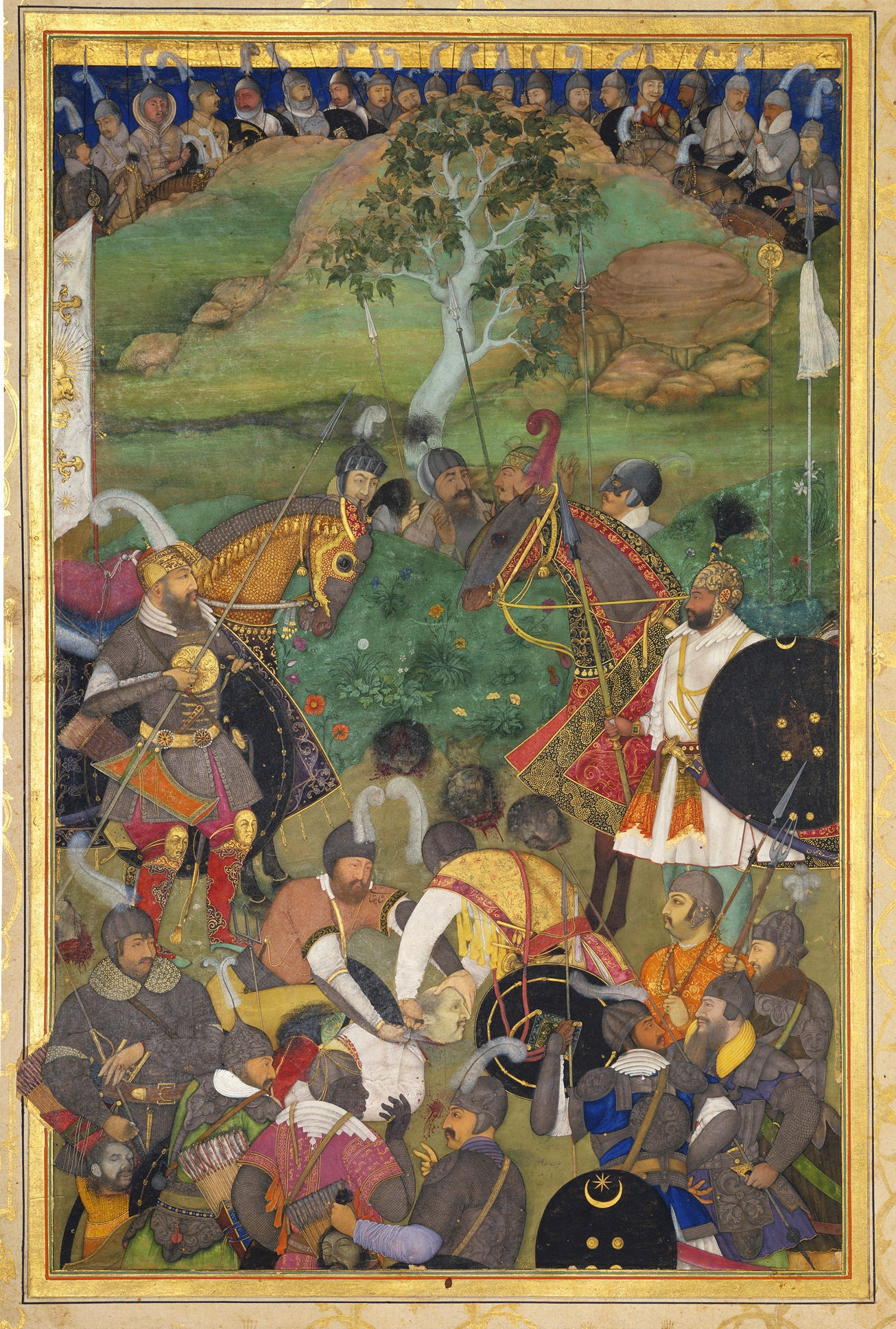 'Abid. The Death of Khan Jahan Lodi. Page from the Windsor Padshahnama, fol. 94v, Date ca. 1633, The Royal Library, Windsor Castle